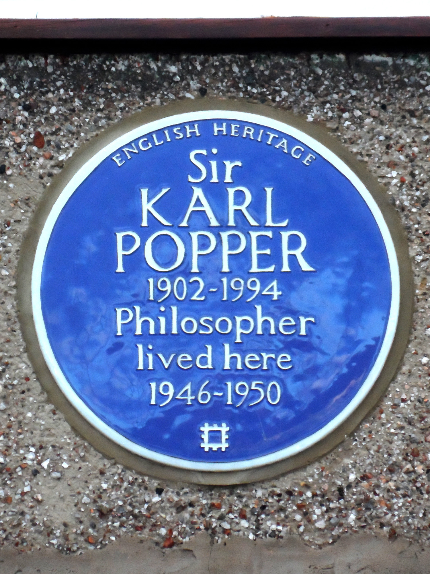 Blue plaque erected in 2008 by English Heritage at 16 Burlington Rise, Oakleigh Park, London EN4 8NN, London Borough of Barnet